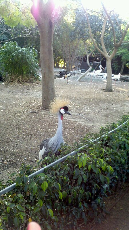 Wildlife and Plants of Israel